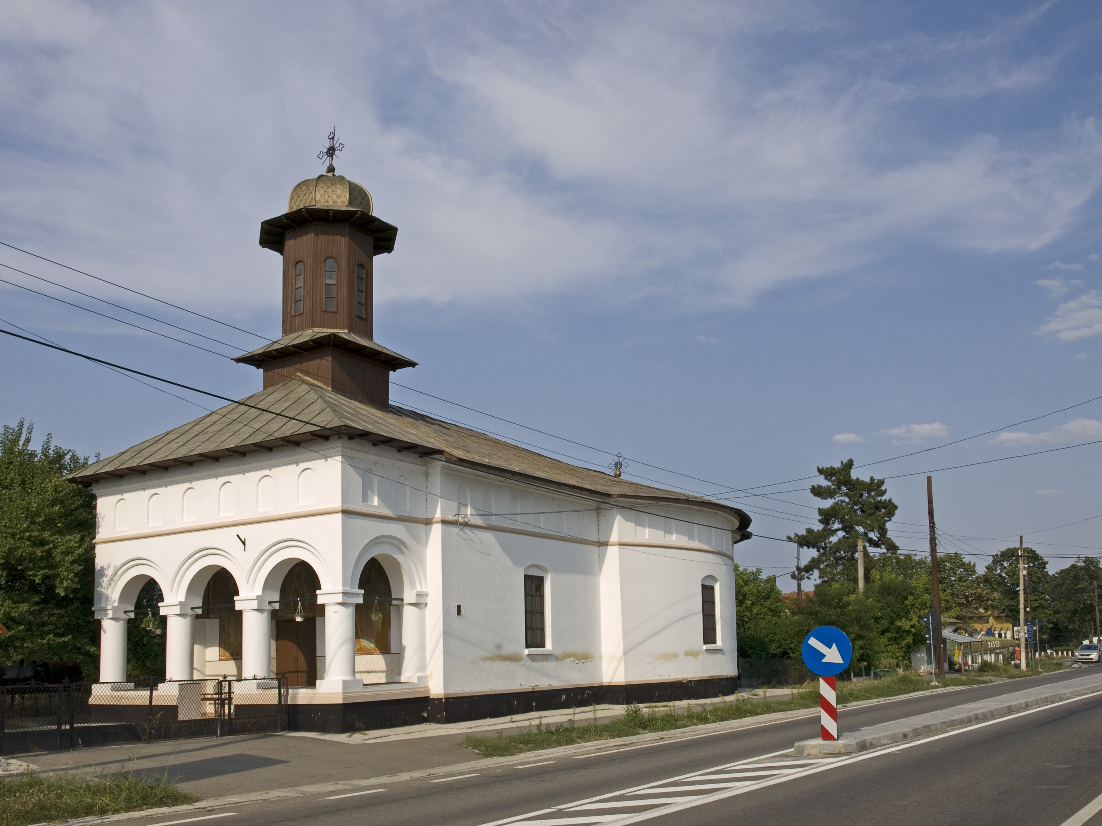 Saint Nicholas Church, Perișor